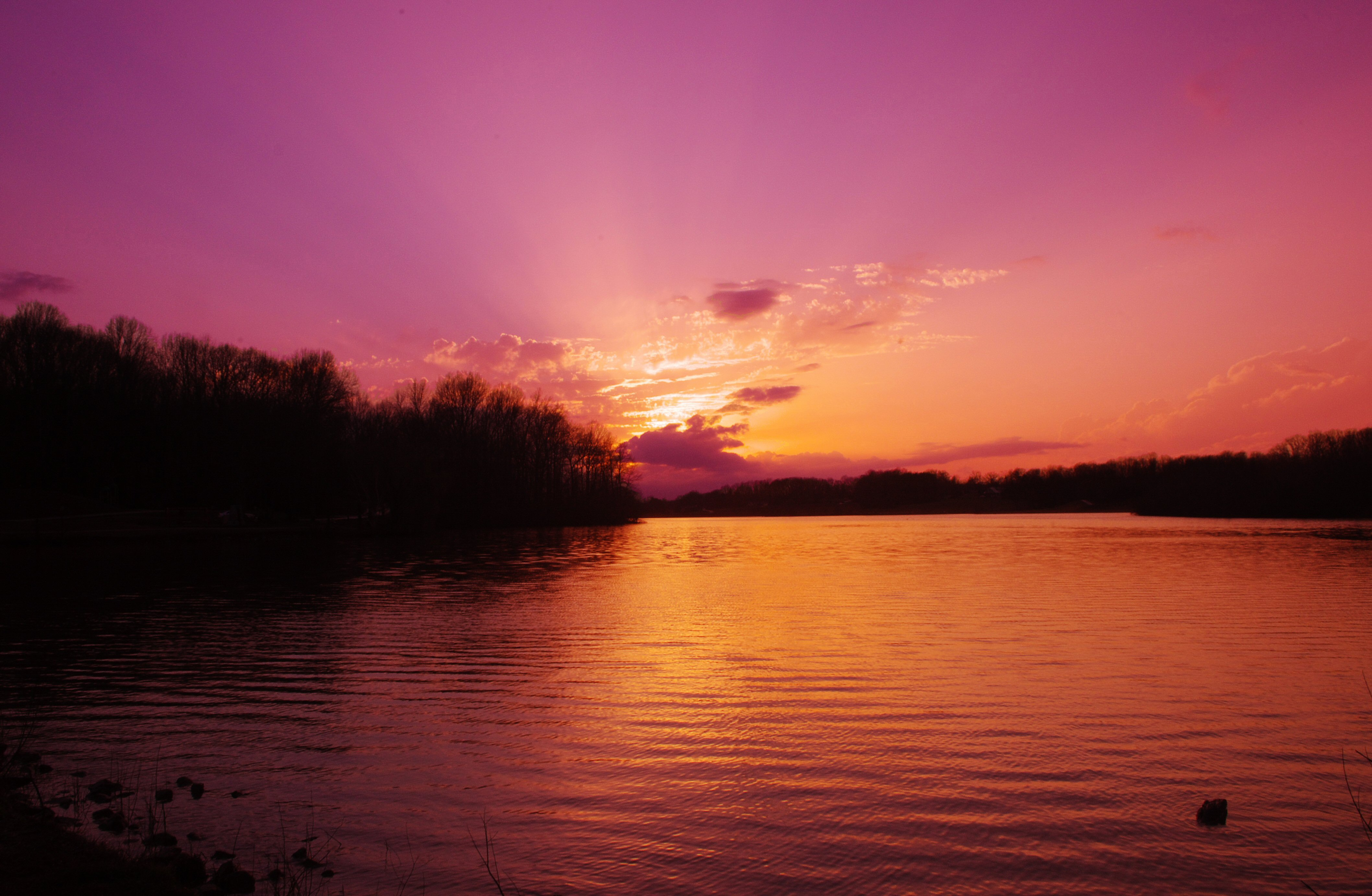 Sunset over Cane Creek Lake near Cookeville, Tennessee, United States.